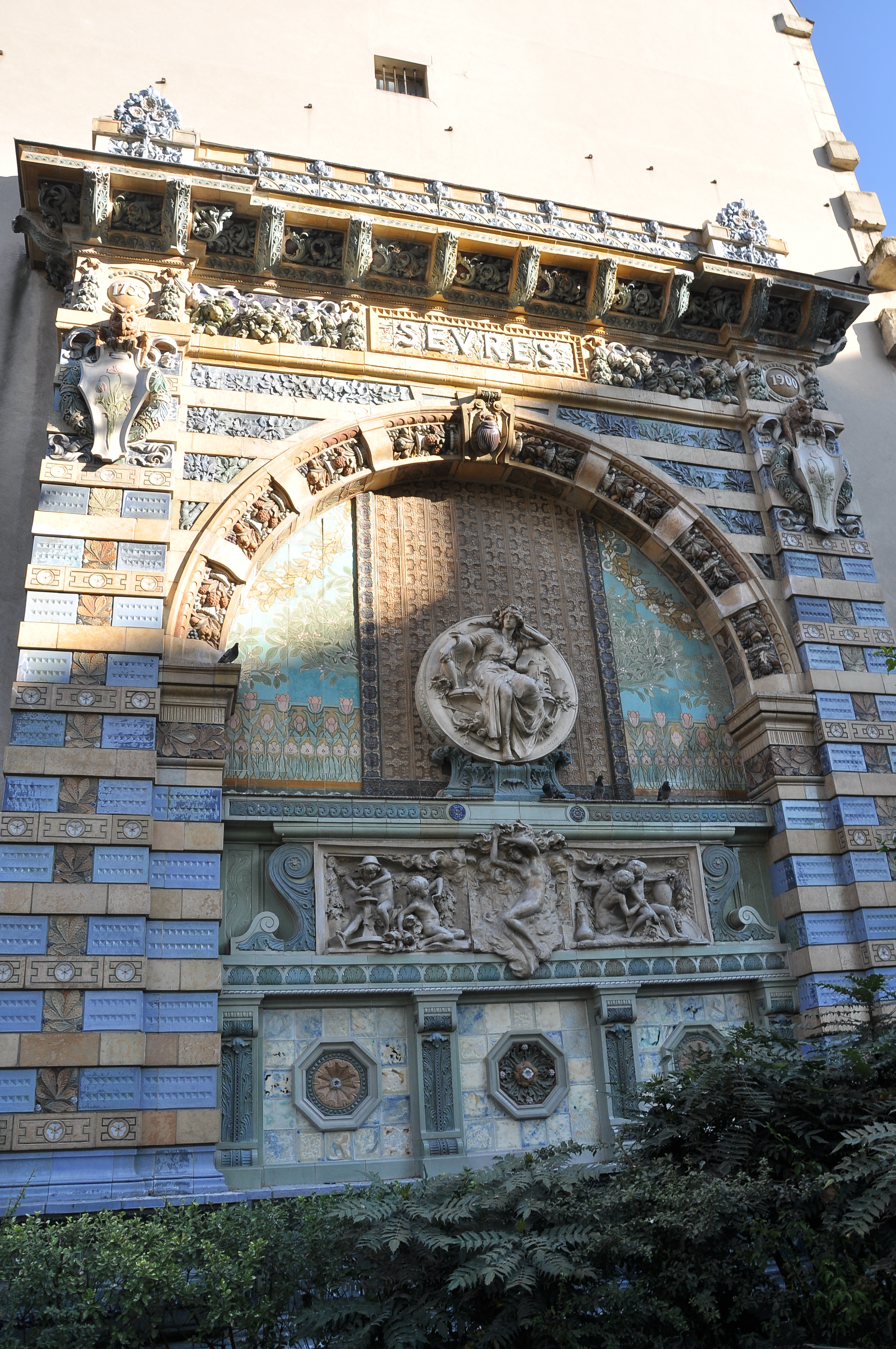 Overview of the monumental portico realized by the architect Charles Risler and the sculptor Jules-Félix Coutan in 1900. The work decorates at present the wall of square Félix-Desruelles situated in Quartier Latin of Paris, 6th arrondissement, France. The portico was a part of the showroom of Porcelain Manufacture de Sèvres during the Exposition Universelle 1900. A decoration with characteristic varied motives of Art nouveau, with a central medallion representing a young woman.